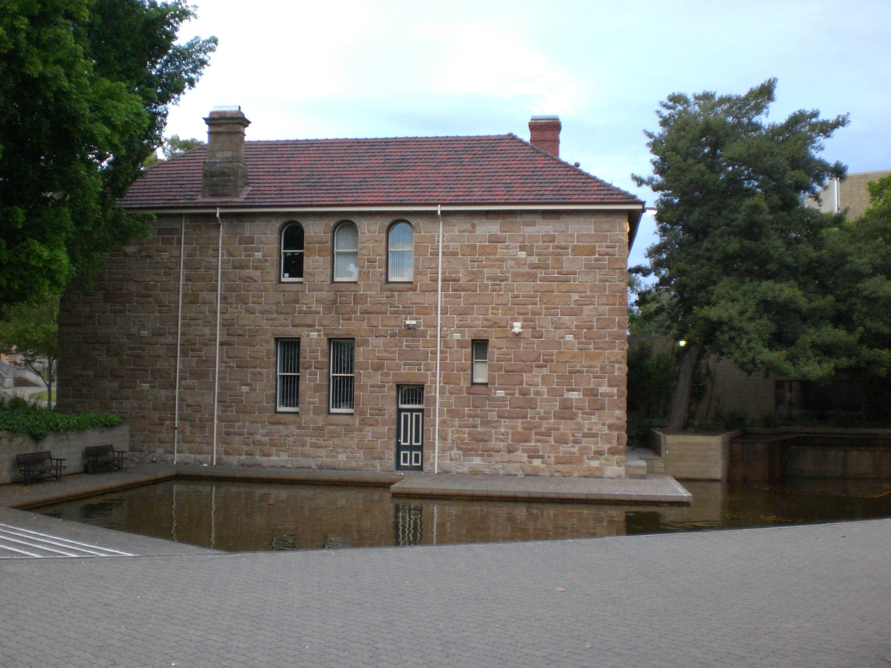 An image from a compact camera of the old Police Courts Building which is now occupied by the Centenary gallery and administration offices of the Art Gallery of Western Australia.